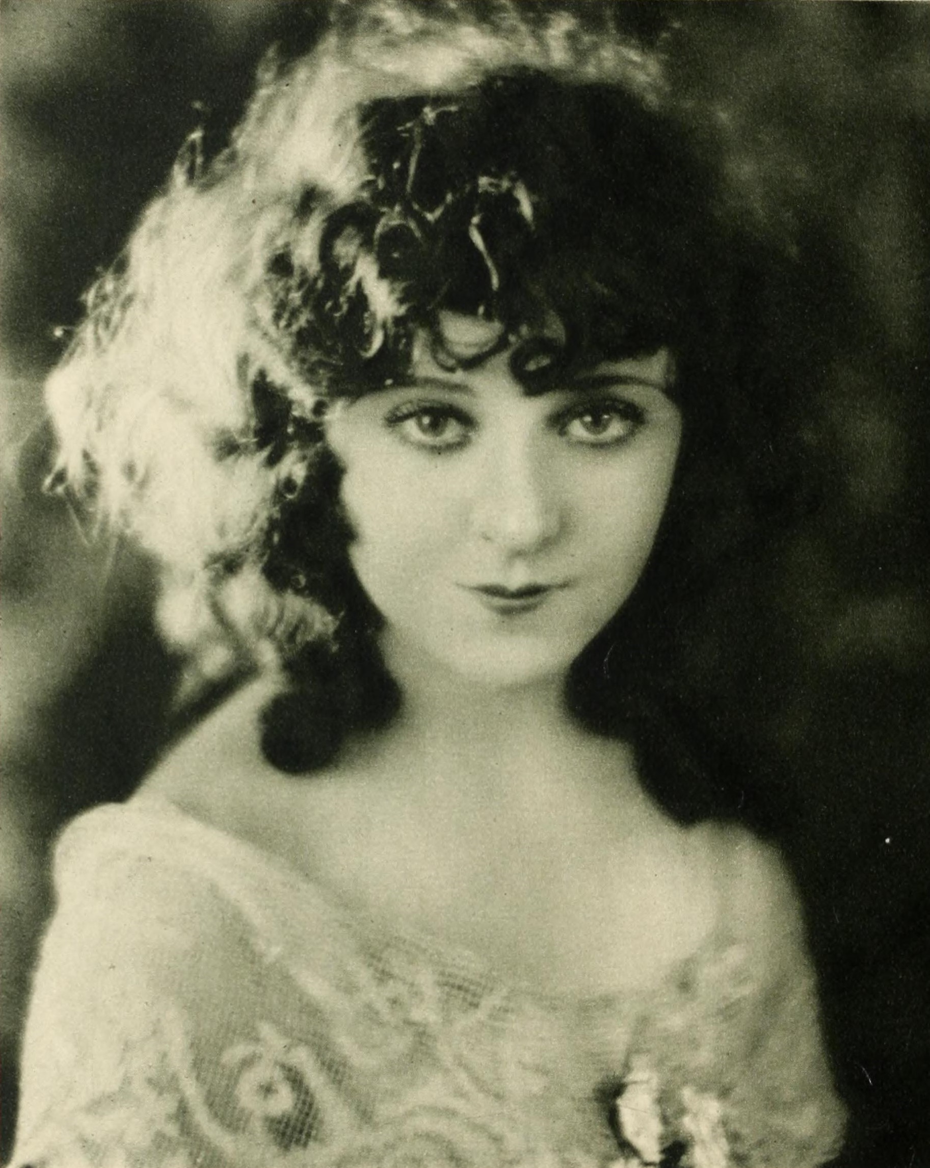 Publicity photo of Jobyna Ralston from Stars of the Photoplay